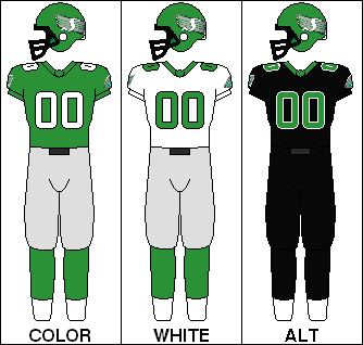 Saskatchewan Roughrider home and away jerseys with alternate black.